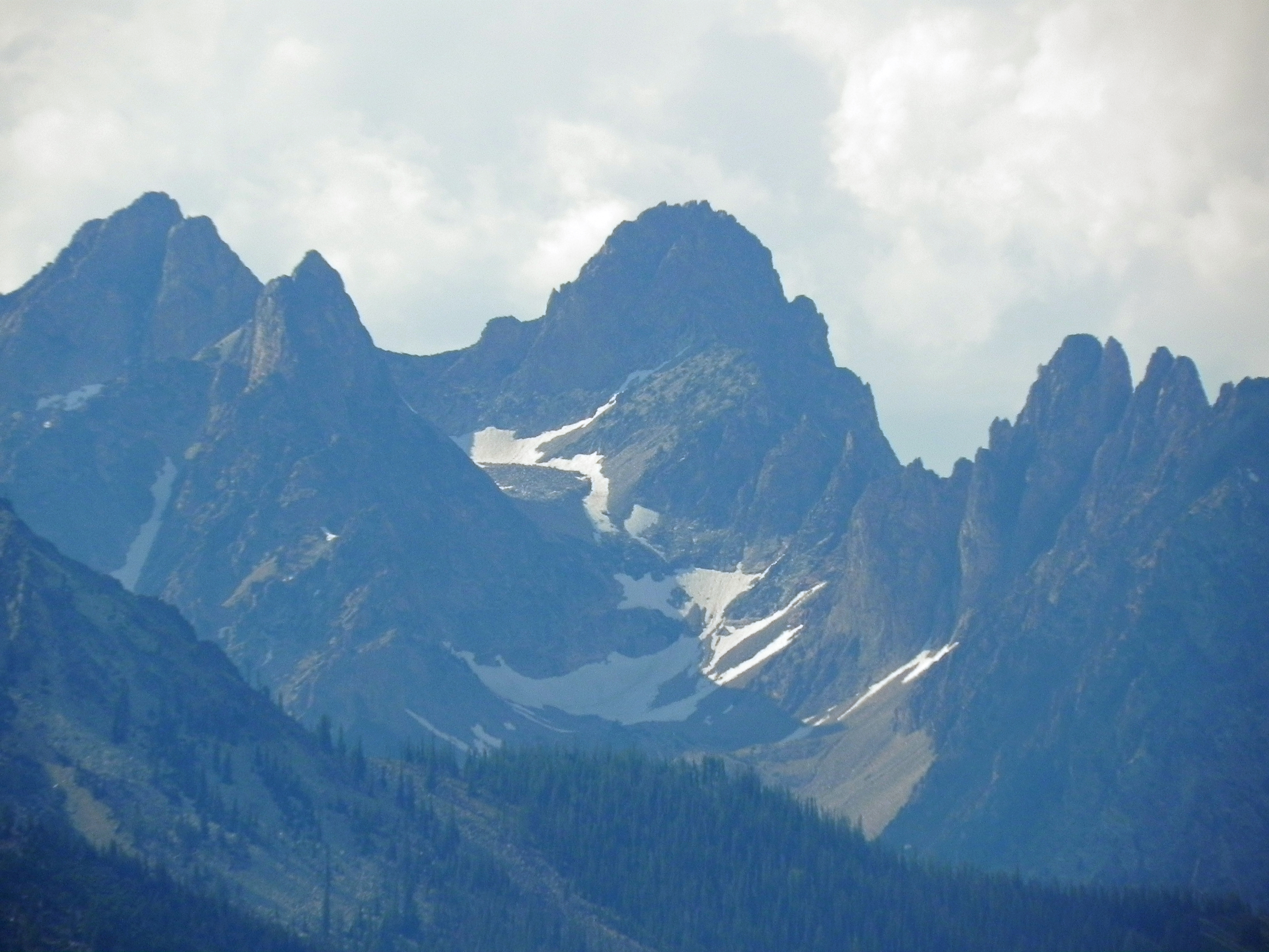 Thompson Peak (center) and Mickey's Spire (left) in the Sawtooth Range of Sawtooth National Recreation Area, Idaho viewed from the southeast.